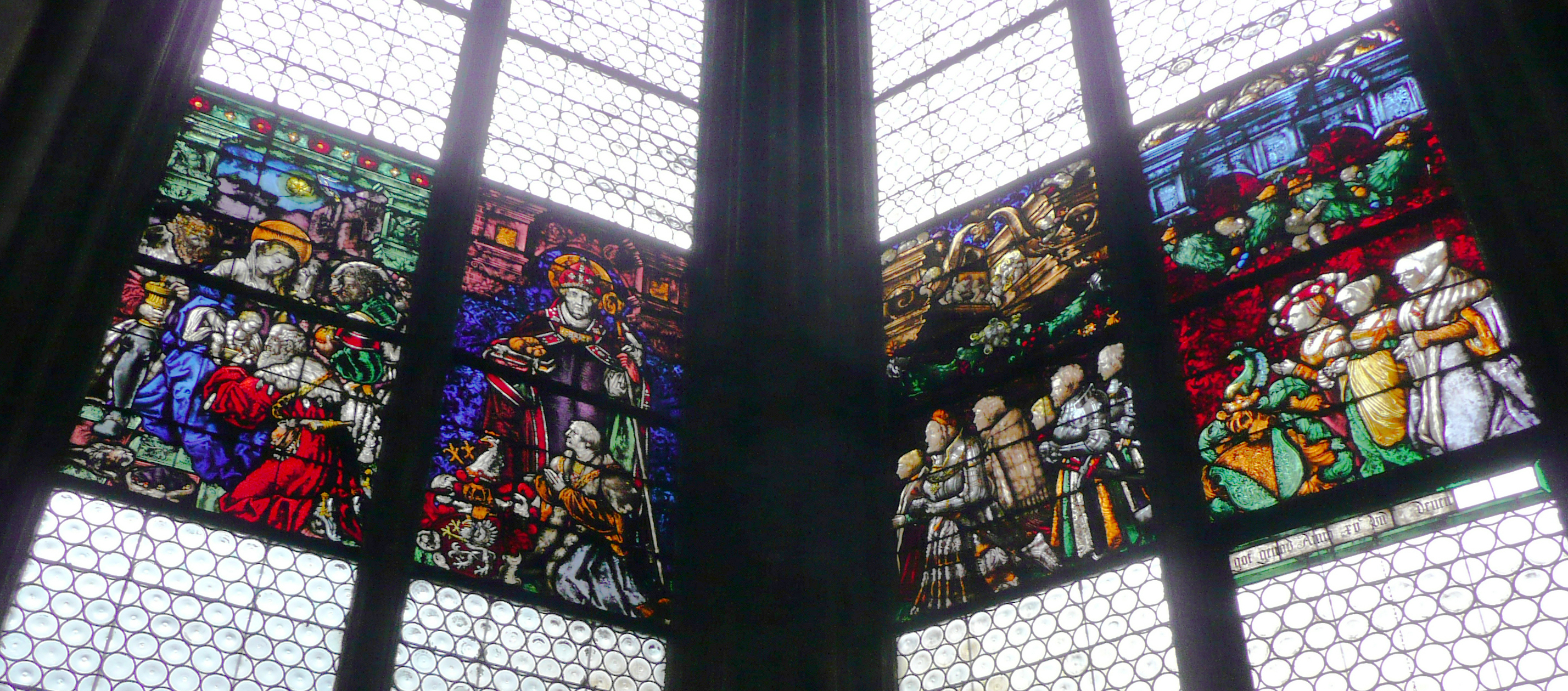 Stained glass window in the Stürzel chapel in the Freiburg Minster showing chancellor Konrad Stürzel von Buchheim (~1435-1509) at the feet of hl. Nikolaus in the adoration of the Magi (left side) together with his family members (right side). Copy by Fritz Geiges from about 1920 according to the original which was finished in 1528 by the Ropstein manufactory according to outlines by Hans Baldung and which is today in the Augustinermuseum in Freiburg. Window inscription: CONRAT STÜRZEL VON BUOCHEIM ERBSCHENK DER LANTGROFSCHAFT ELLSES [Elsaß] RITTER DOCTOR R. K. M. [Roman Emperor] HOFKANTZLER UND SIN GEMACHEL FRAUW URSULA GEBORNE LOUCHERIN DENEN GOTT GENOD. ANNO XV UND IM FINFTEN. [1505]